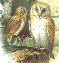 Barn Owl